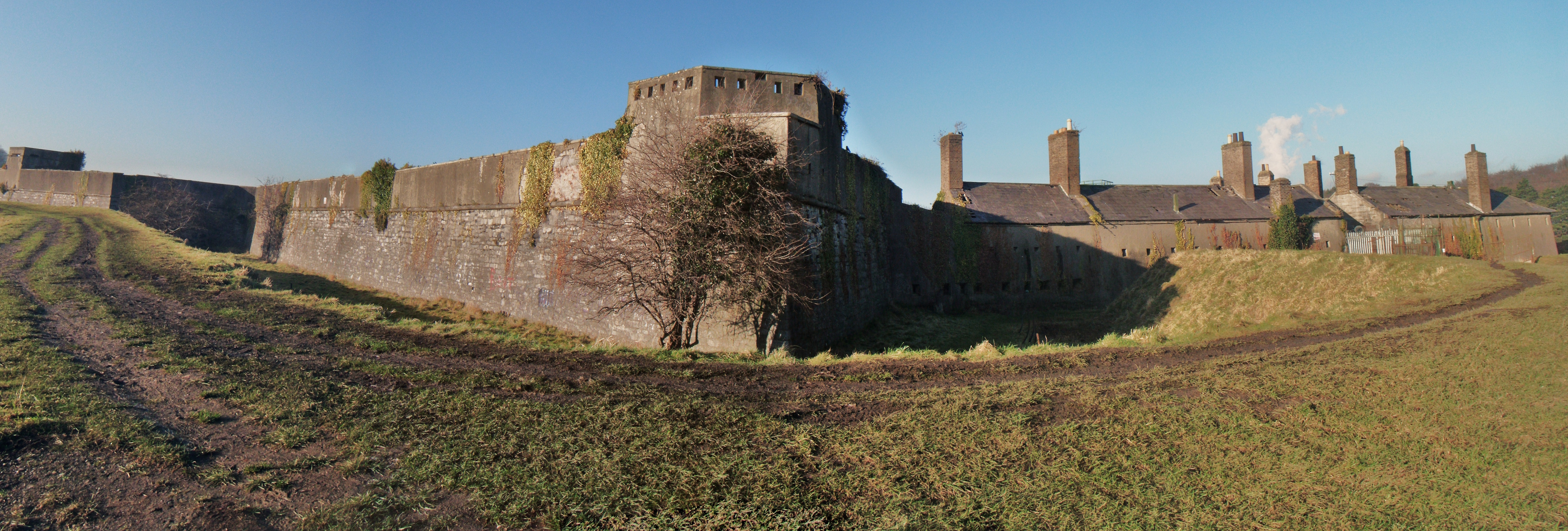 The Magazine Fort Phoenix park Dublin